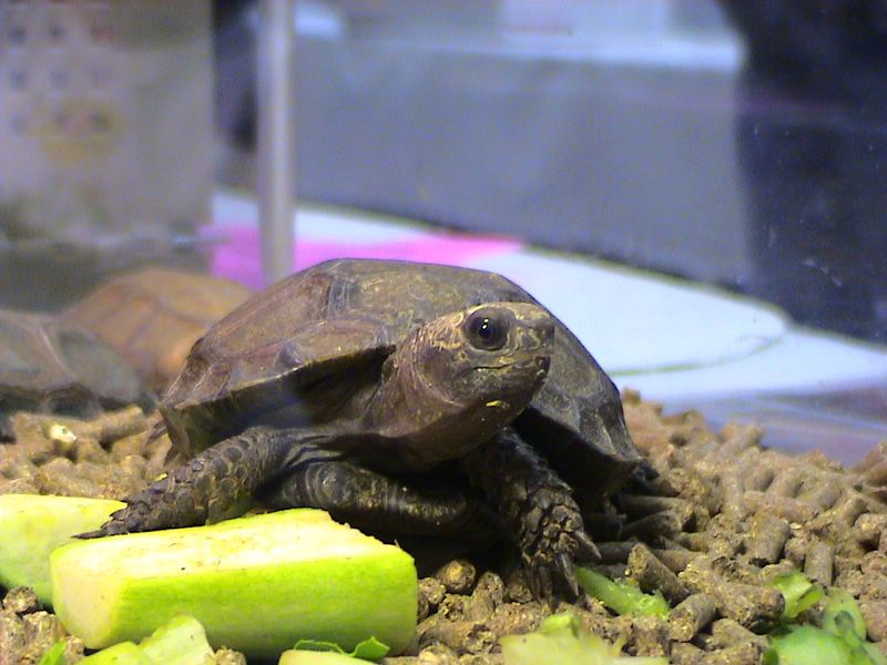 Manouria emys, Asian Forest Tortoise